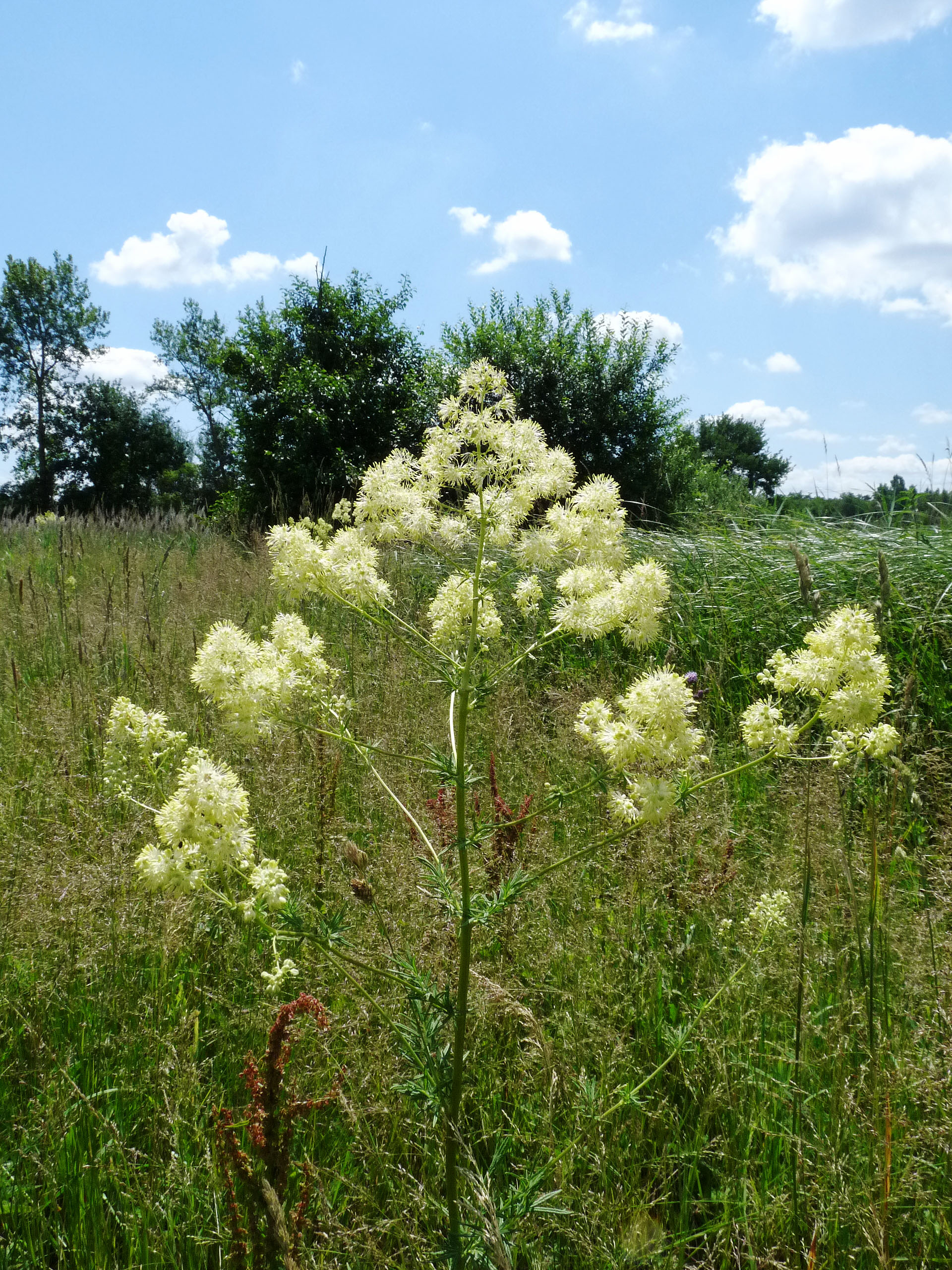 Meadow Rue at the natural monument Vrbenská tůň in České Budějovice District, Czech Republic Česky: Žluťucha lesklá v oblasti přírodní památky Vrbenská tůň v okrese České Budějovice